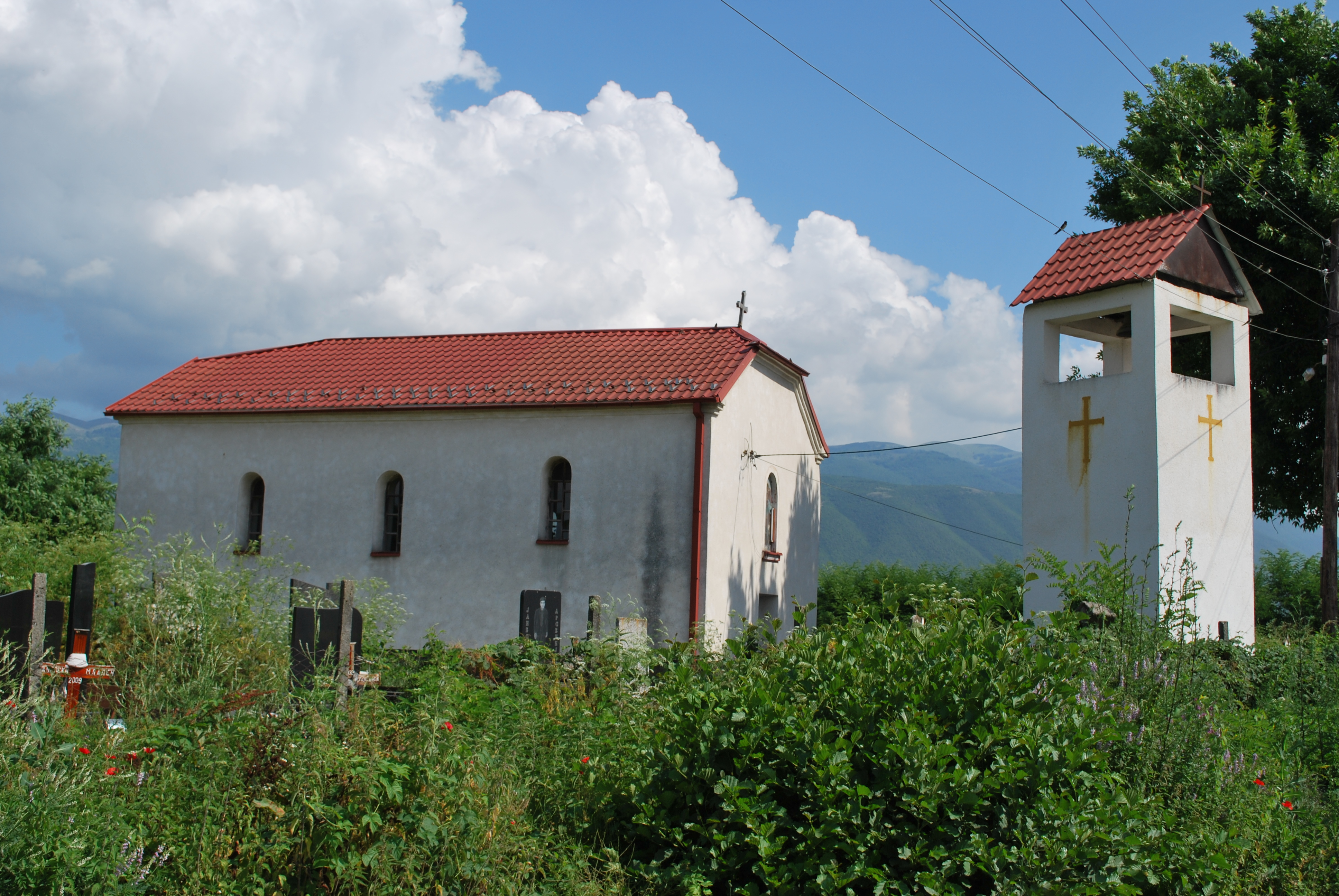 St. Demetrious Church in Tumčevište, Macedonia